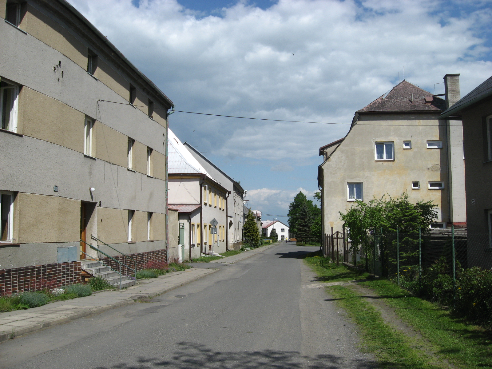 A street in Bílá Voda, Jeseník District, Czech Republic